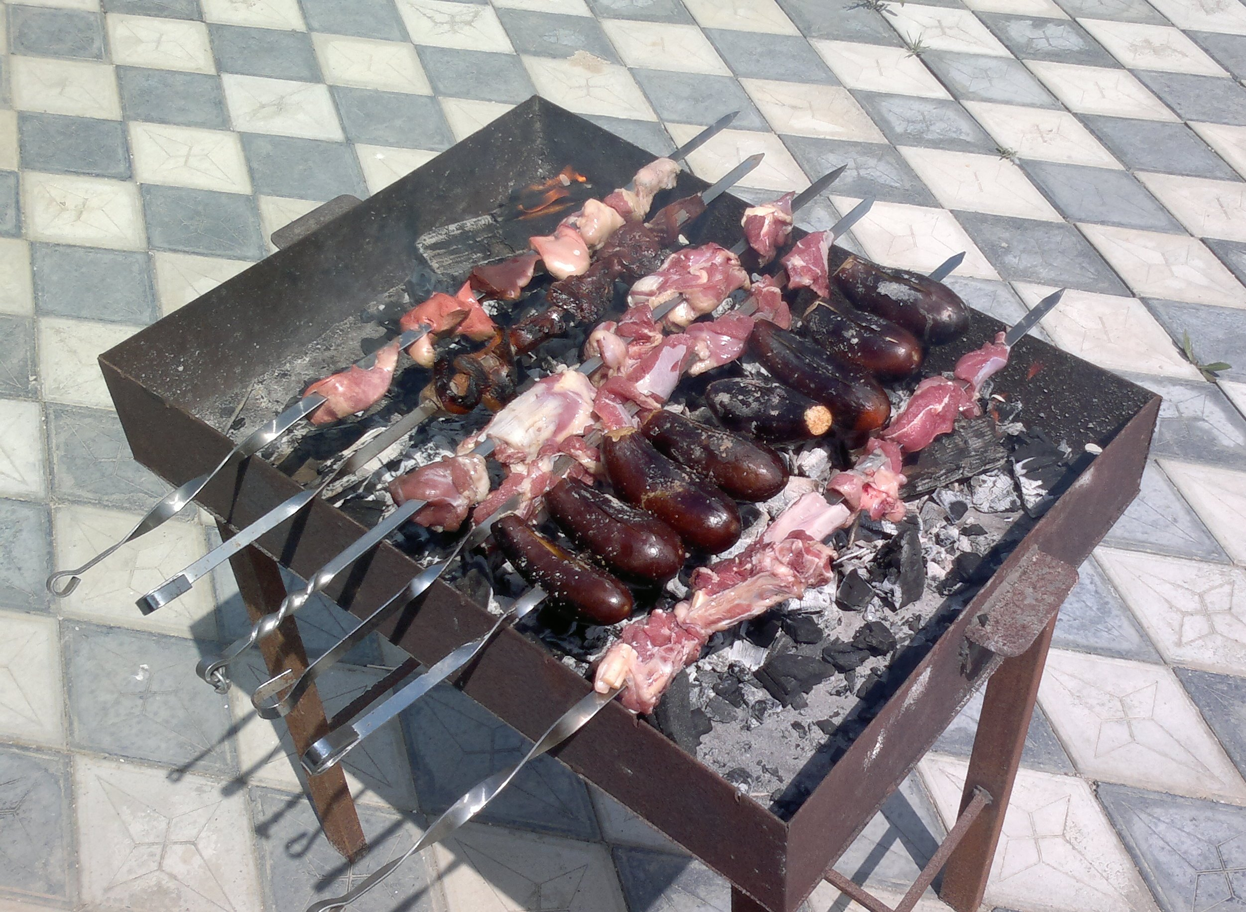 Shashliks with meat and eggplants on the mangal in Azerbaijan.